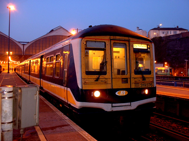 Dawn departure for a Thameslink class 319 service